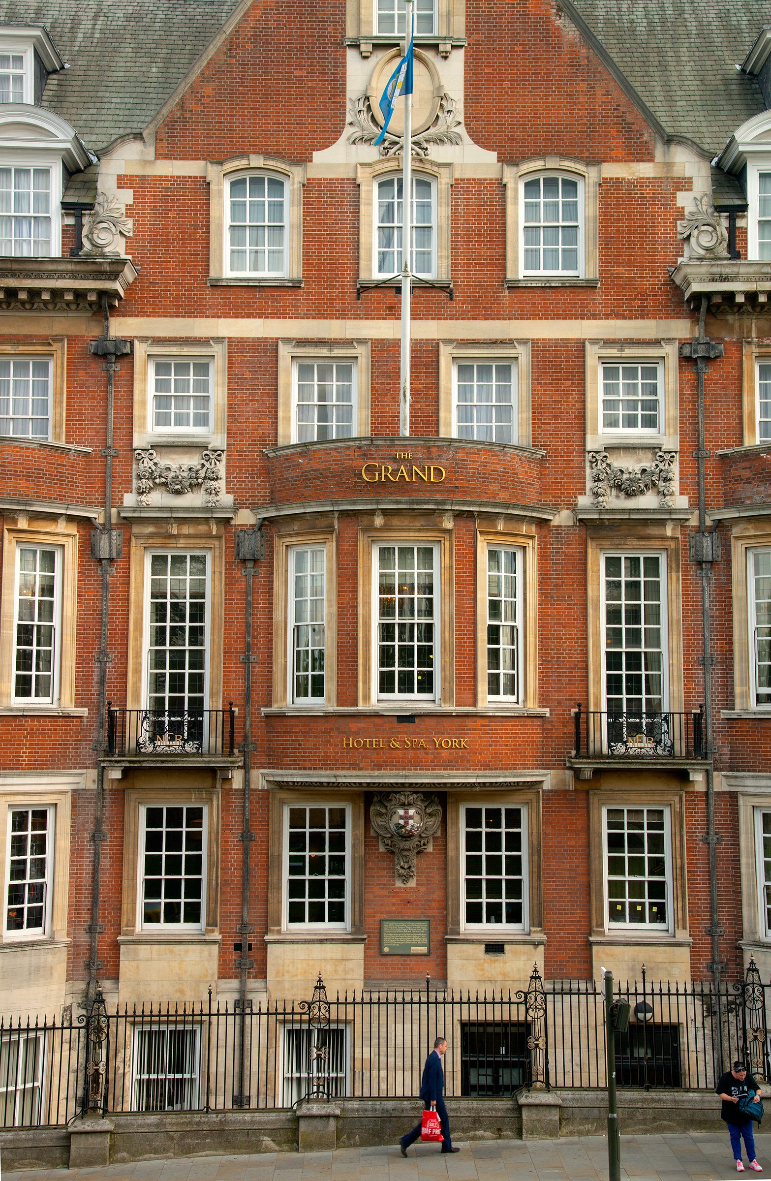 The Grand Hotel from the wall in York